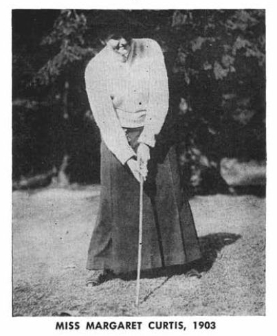 Margaret Curtis 1903